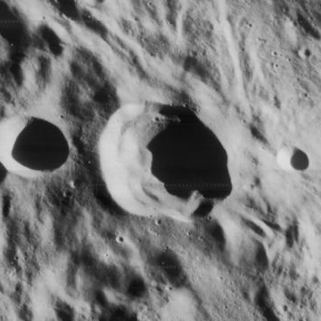 Oblique view of Catalan, on the moon.